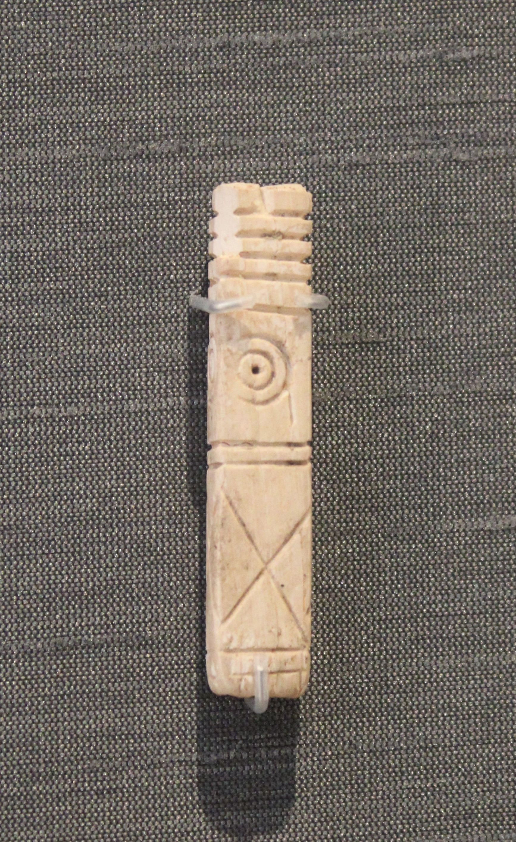 Carved ivory rectangular object. Unknown function: may have been used as a game piece (some kind of dice ?), or during rituals such as divination. Mohenjo-daro, Mature Harappan period, c. 2600-1900 BC. 1919,0619.336.